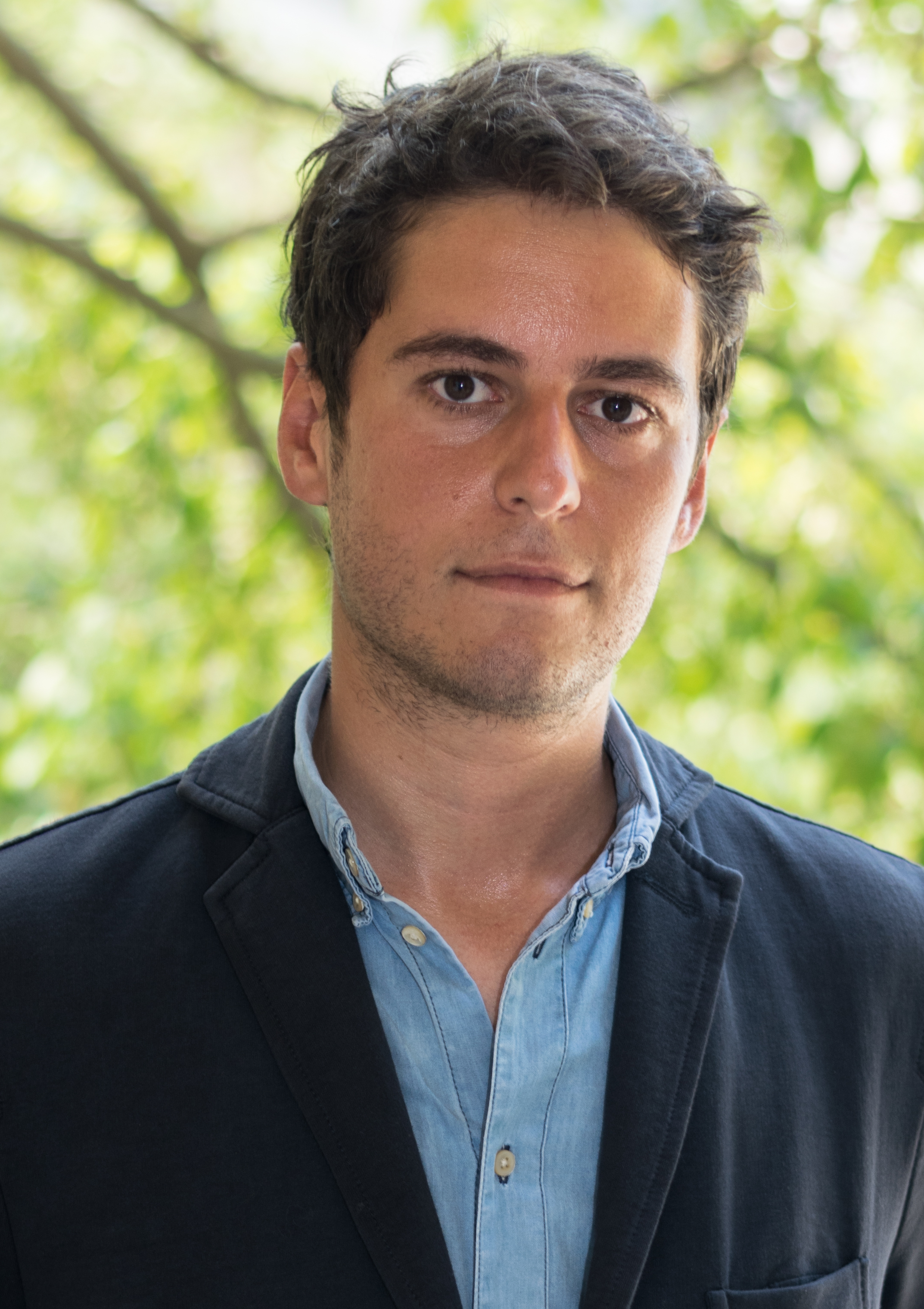 Gabriel Attal in the garden of the Quatres Colonnes in the Palais Bourbon (Paris, France).